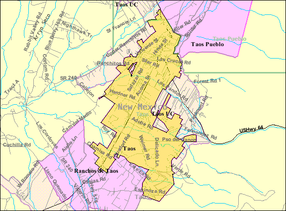 U.S. Census 2000 reference map for Taos